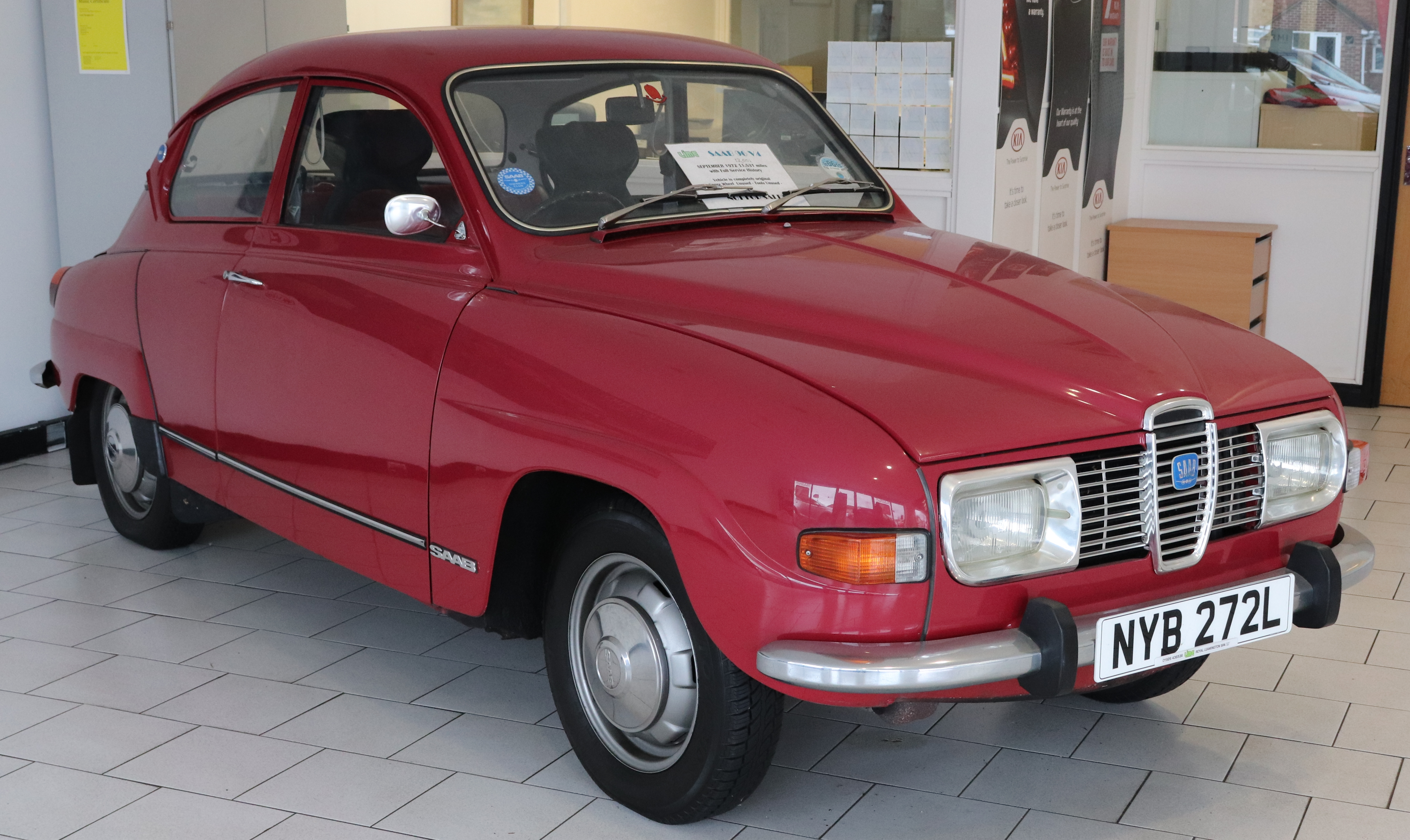 1972 Saab 96 V4 1.5 Taken in Warwick